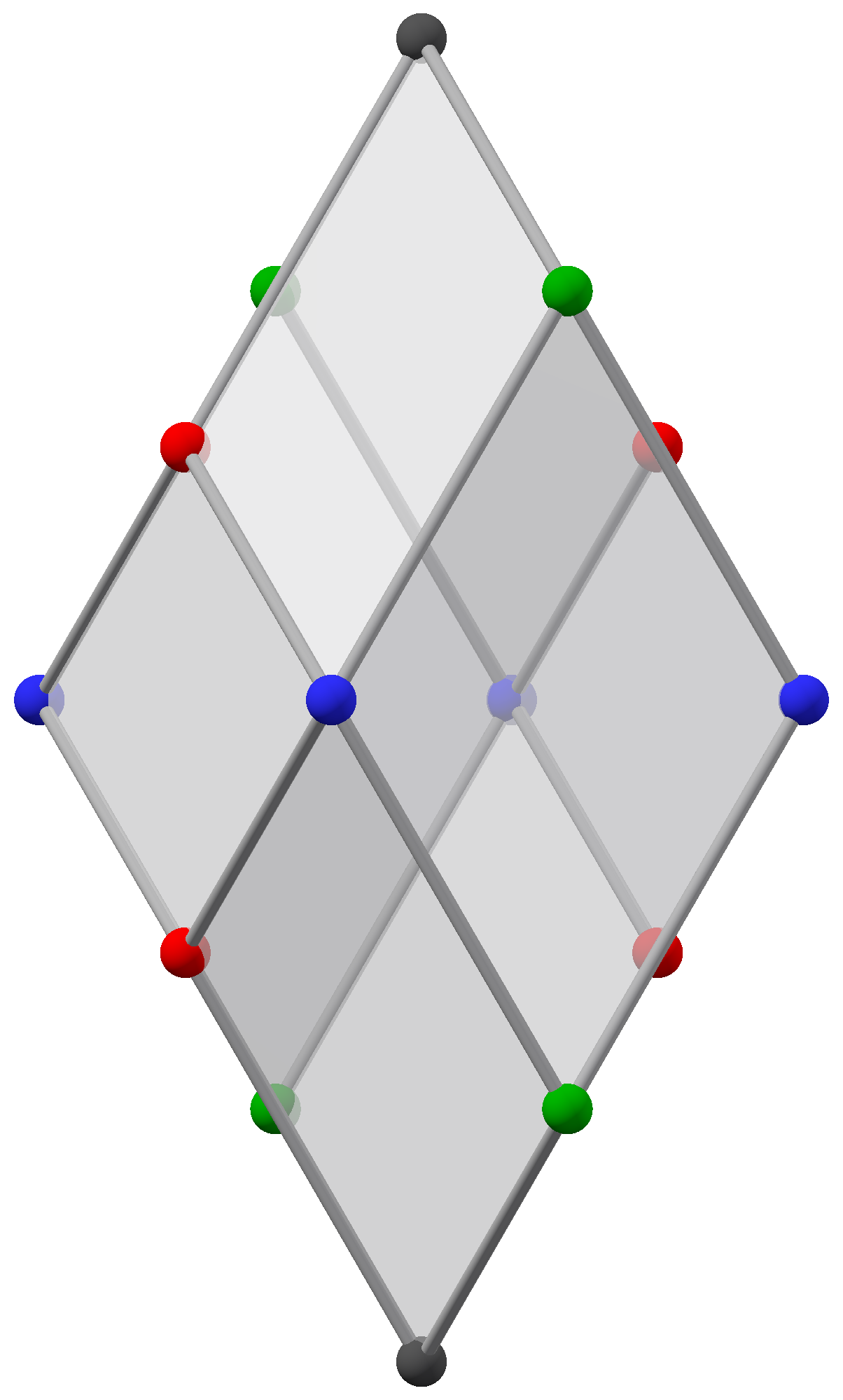 With two internal vertices, completing the 4×4 matrix The ratio of the rhombic faces is φ. The ratio of the projected rhomb is √3. Image set Bilinski dodecahedron (gray) Renderings of the Bilinski dodecahedron Some images show two internal vertices (yellow), making it a shadow of the tesseract. The golden rhombohedra (acute and obtuse) are the cubic cells of this tesseract. This image was created with POV-Ray.